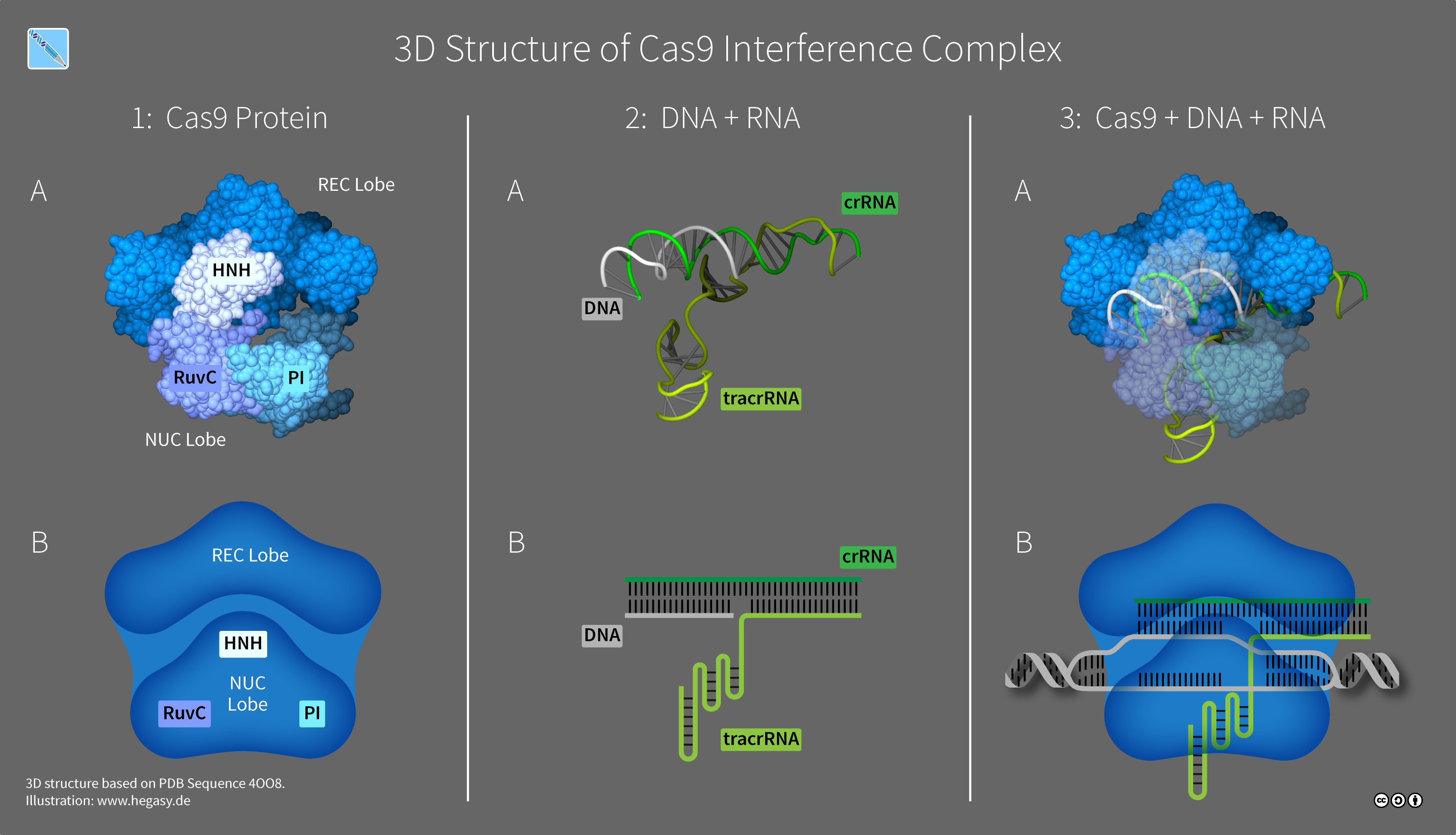 3D Structure of the CRISPR-Cas9 Interference Complex. 3D models are based on crystallization data using PDB sequence 4OO8. 1A: Structure of Cas9 protein. REC lobe (recognition) and NUC lobe (nuclease) are indicated as well as functional domains PI (PAM interacting), HNH, and RuvC. 1B: Abstract depiction of Cas9. 2A: Conformation of crRNA, tracrRNA, and DNA. 2B: Abstract depiction of molecules is shown in 2A. 3A: 3D structure of the complete interference complex. The NUC lobe is shown semi-transparent for clarity. 3B: Abstract depiction of the interference complex.